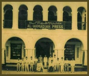 The Al-Ahmadiah Press building on Jalan Sultan, Singapore. Built in 1912, the press was owned by Raja Haji Ali and printed mostly books in Jawi and Arabic.